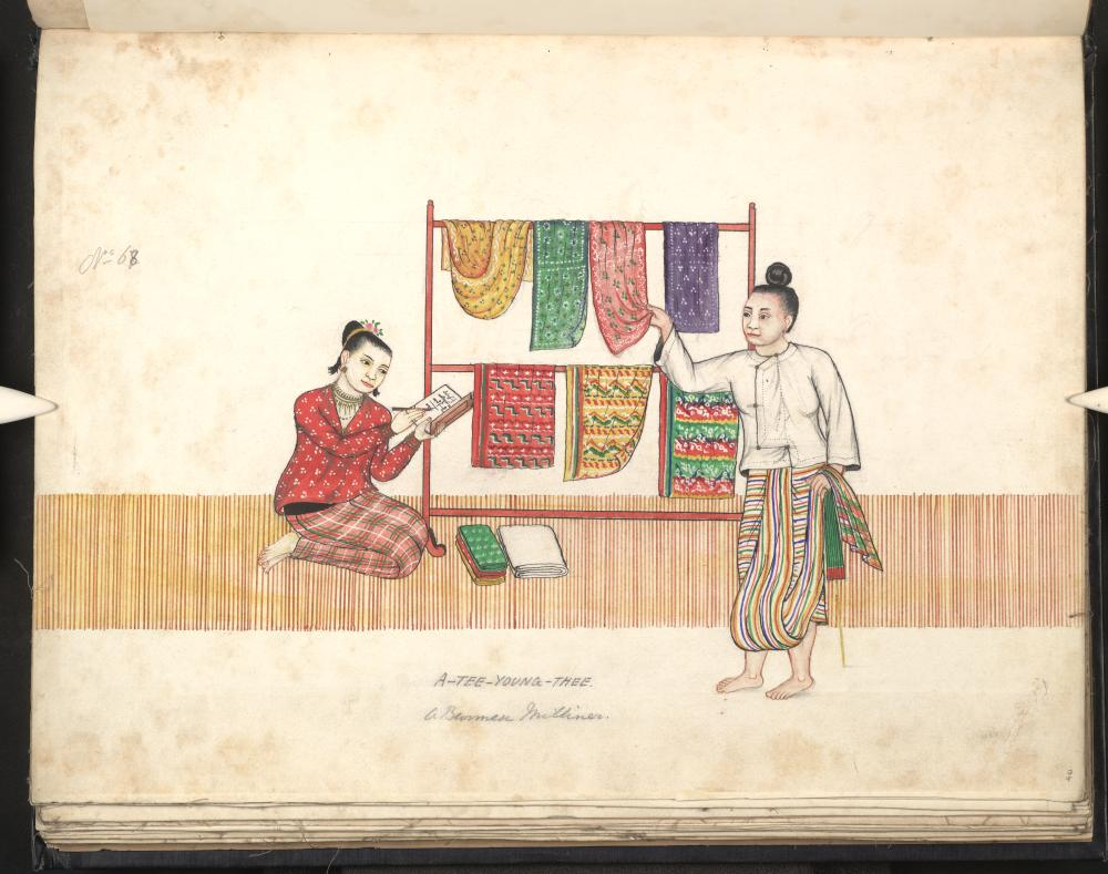 Watercolour painting by an unknown Burmese artist depicting 19th century Burmese life. Text: A-TEE-YOUNG-THEE. A Burmese Milliner More description at [1] Shelfmark: Ms. Burm. a. 5